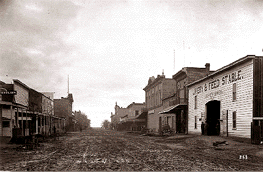 View of 10th street of Modesto.